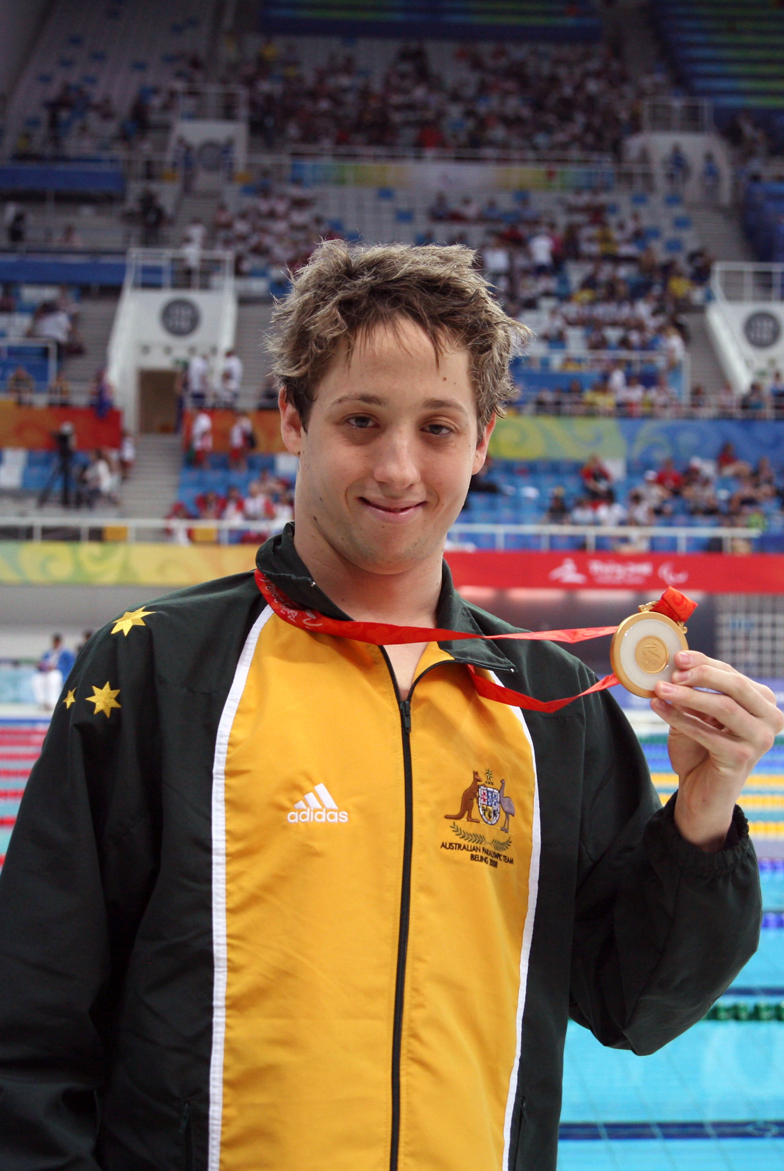 Australian swimmer Peter Leek displays his gold medal for the men's S8 100m butterfly at the Beijing 2008 Paralympic Games